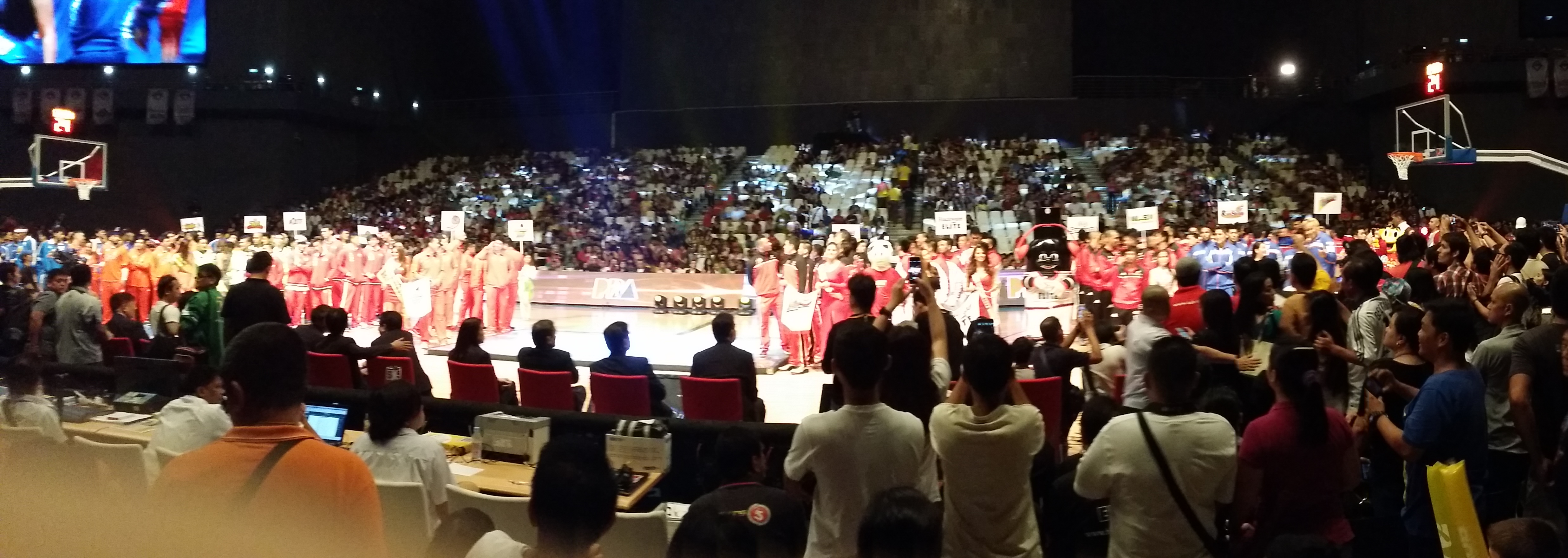 2014-15 PBA opening ceremonies - Parade of teams